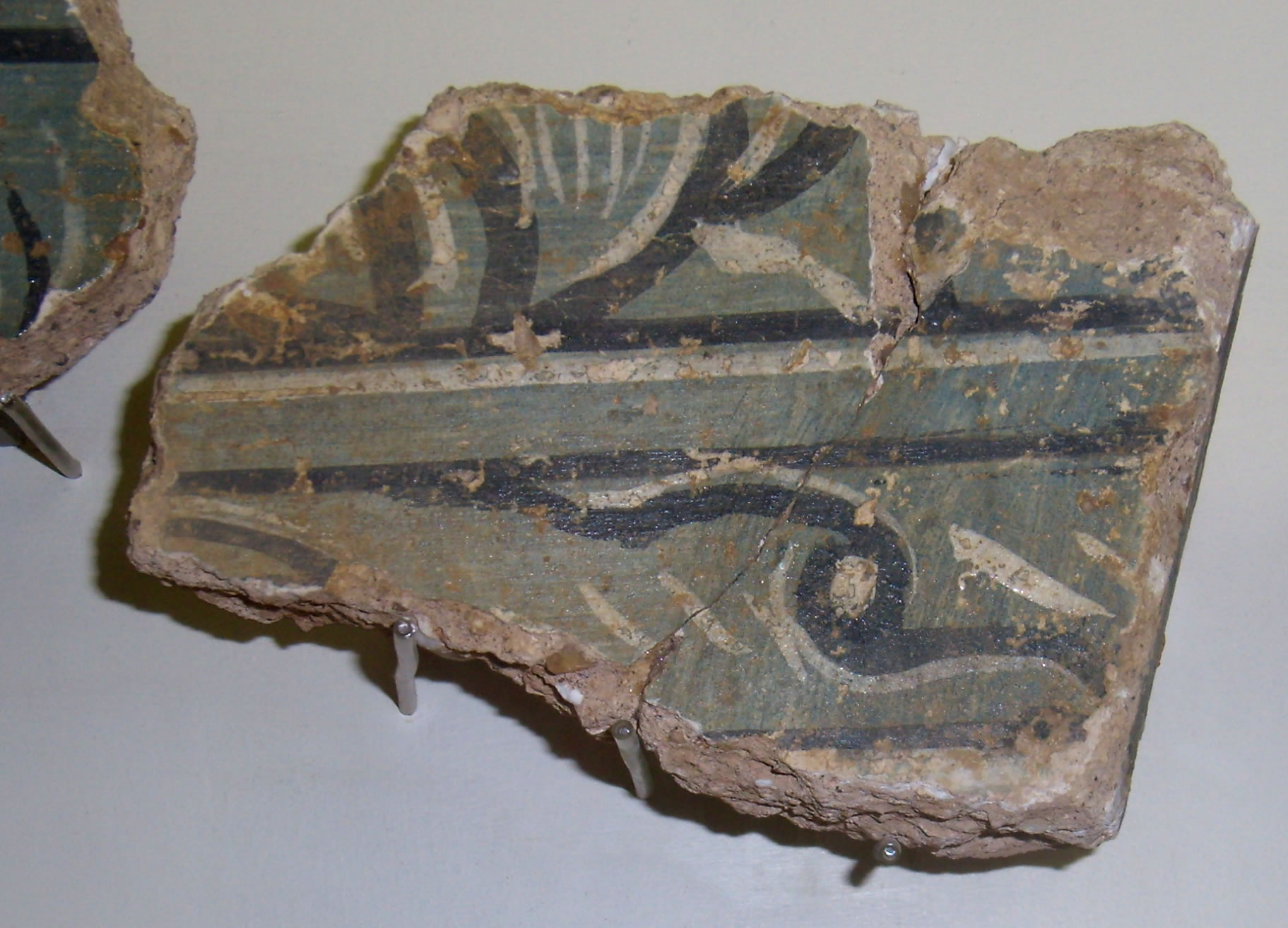 Fragment of wall painting, Roman villa Gorhambury, England